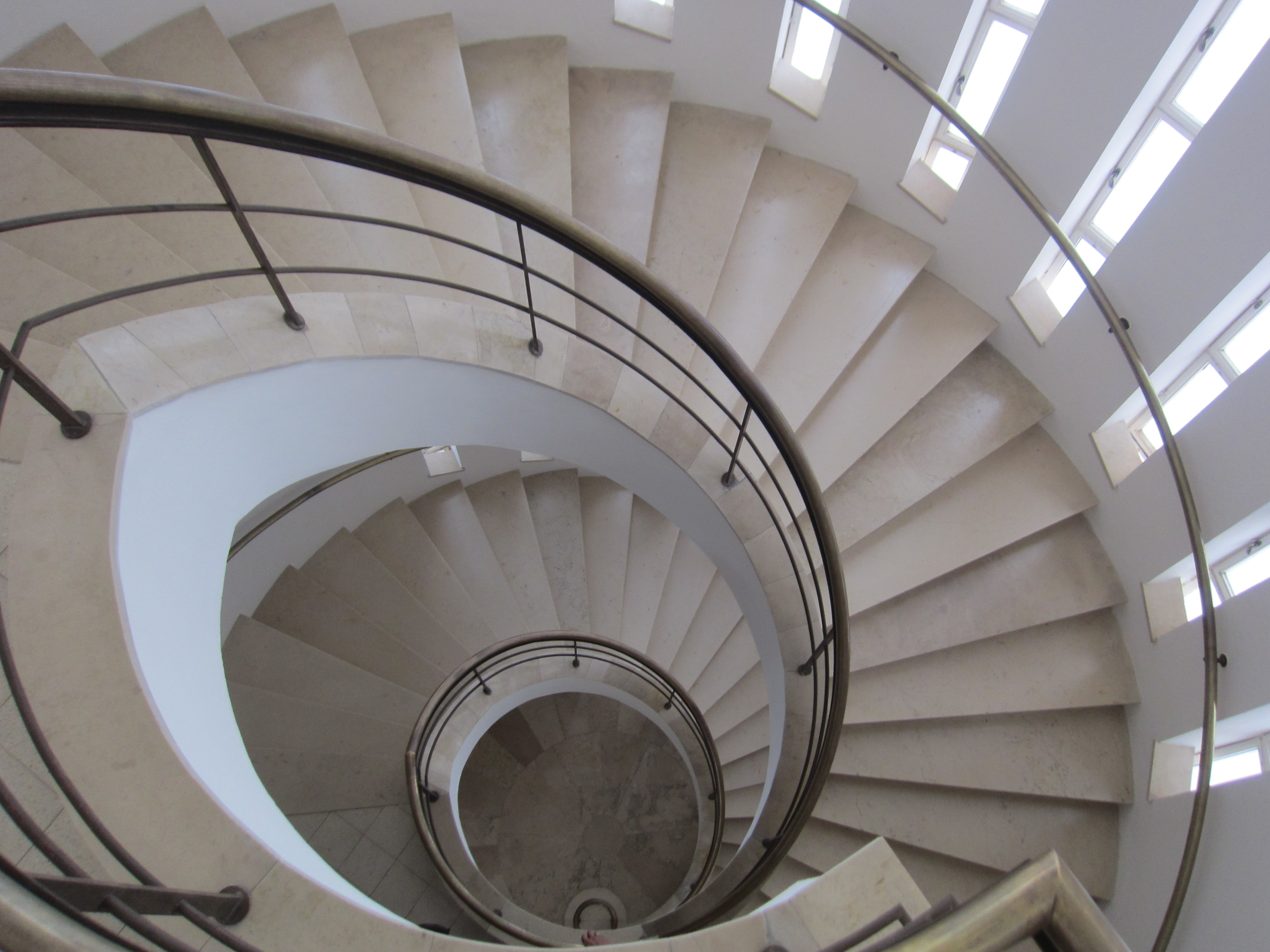 The Weizmann House was the home of the first President of Israel, Chaim Weizmann, and first First Lady, Vera Weizmann. The house sits atop a hill in Rehovot, and is now part of the Weizmann Institute of Science. The house was designed by Jewish architect Erich Mendelsohn, and recognized as a masterpiece. The structure is organized around a cylindrical spiral stairwell tower.